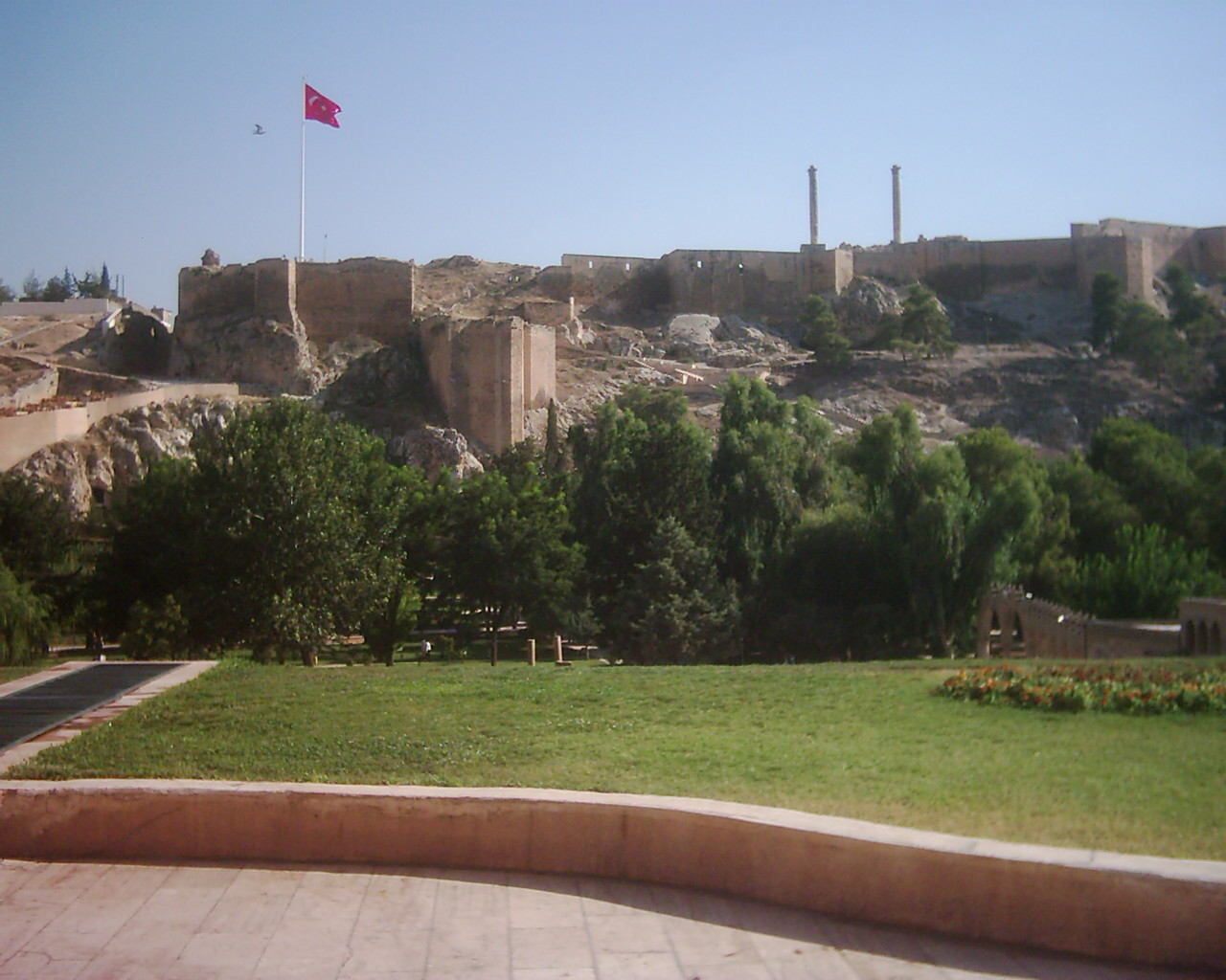 Crusader's citadel, view from Gölbaşı garden, Urfa, Turkey, July 2008